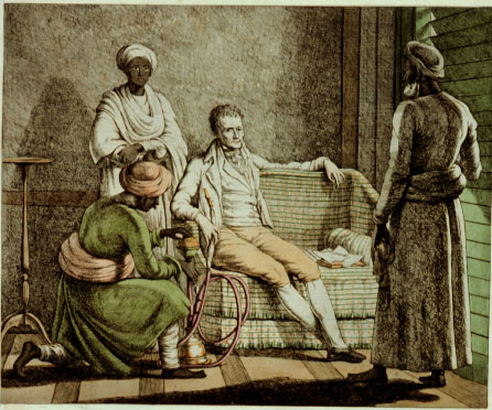 From Les Hindoûs, Vol. IV (1812)